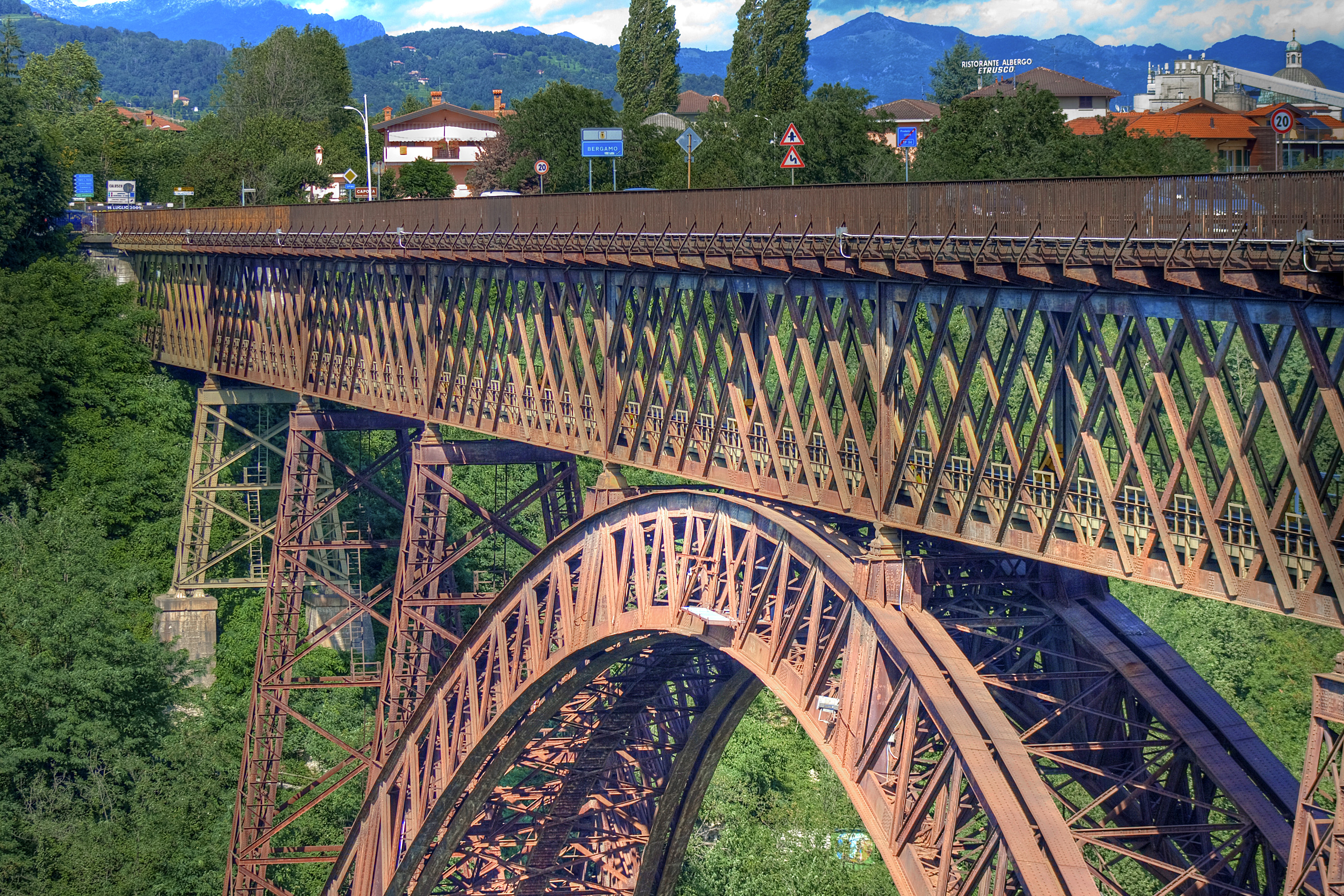 The bridge of San Michele is an arched bridge in iron, links the villages of Paderno and Calusco through the gorge of the river Adda.